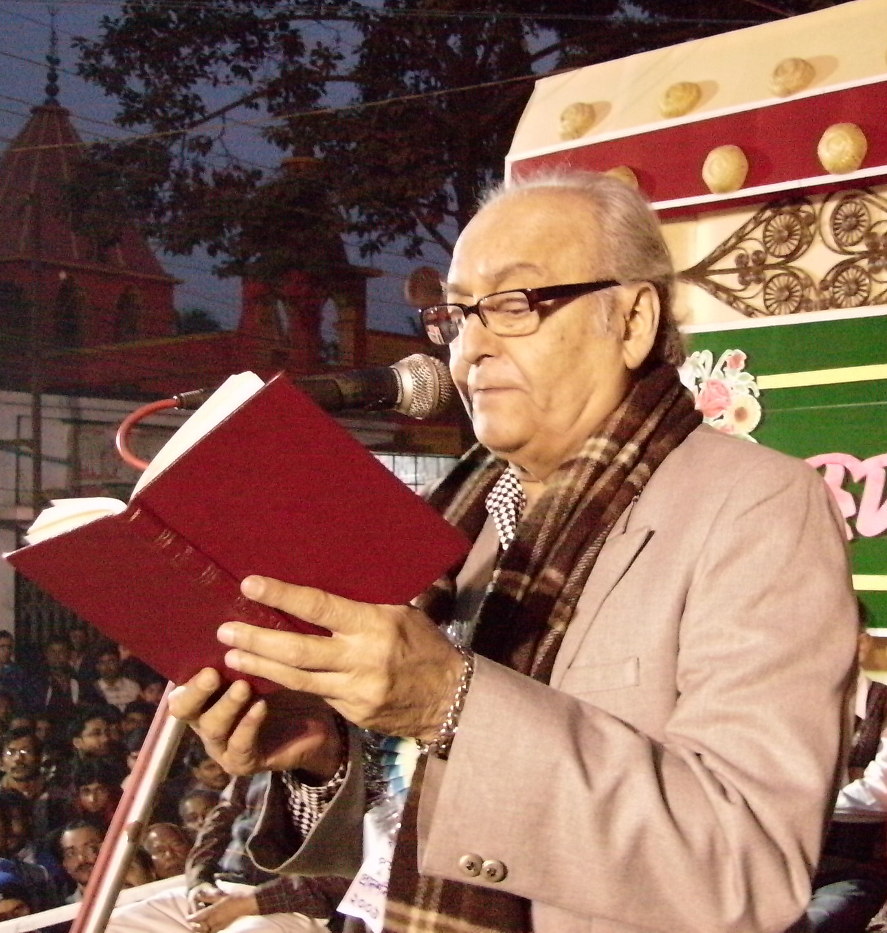 Soumitra Chatterjee reciting a poem by Rabindranath Tagore at the inauguration of Kharda Flower Show; 160 Station Road, Rahara, Kharda, Kolkata - 700118, West Bengal, India. He was the chief guest along with West Bengal Finance Minister Dr. Asim Dasgupta.